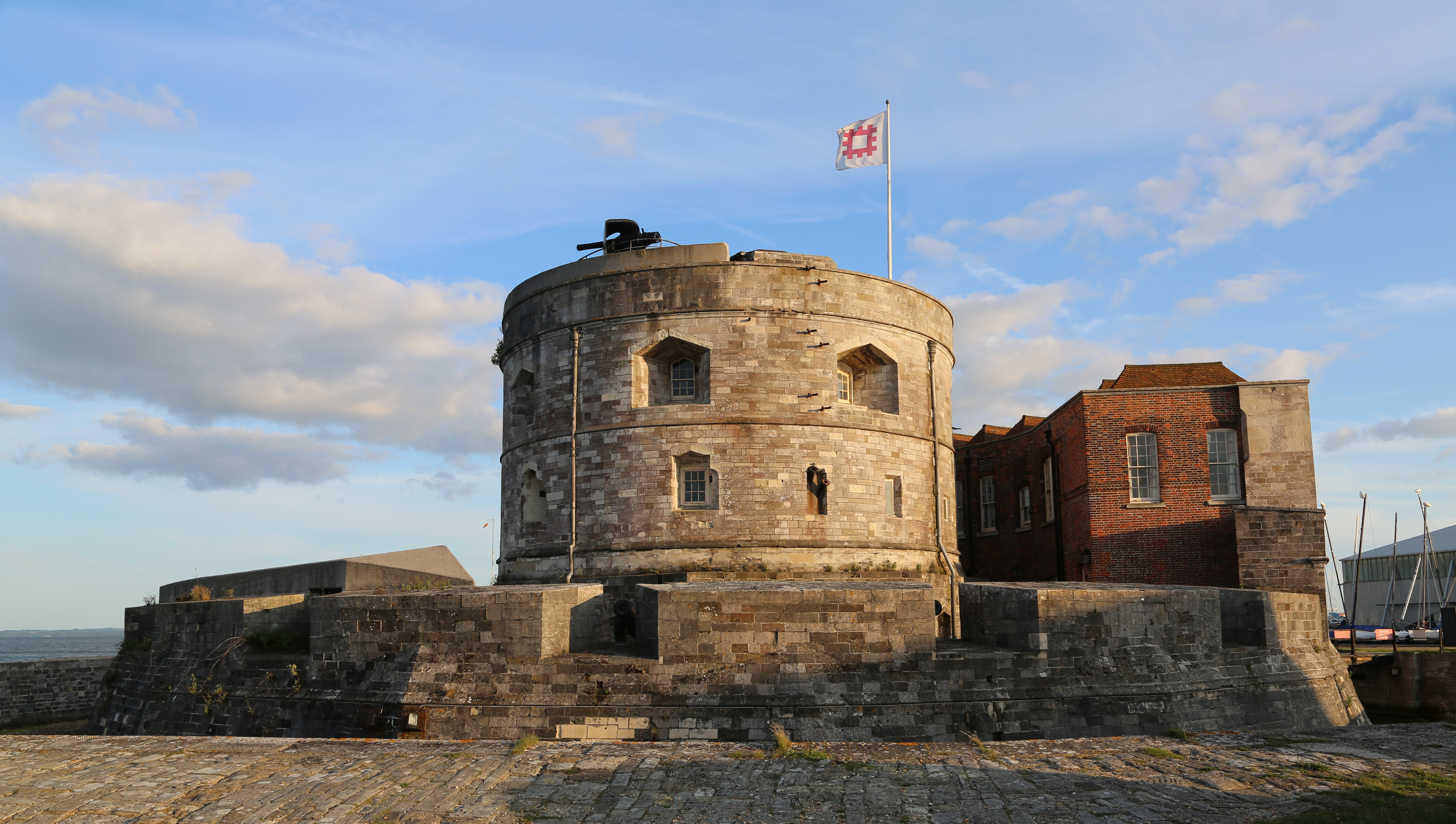 Photo of Calshot castle